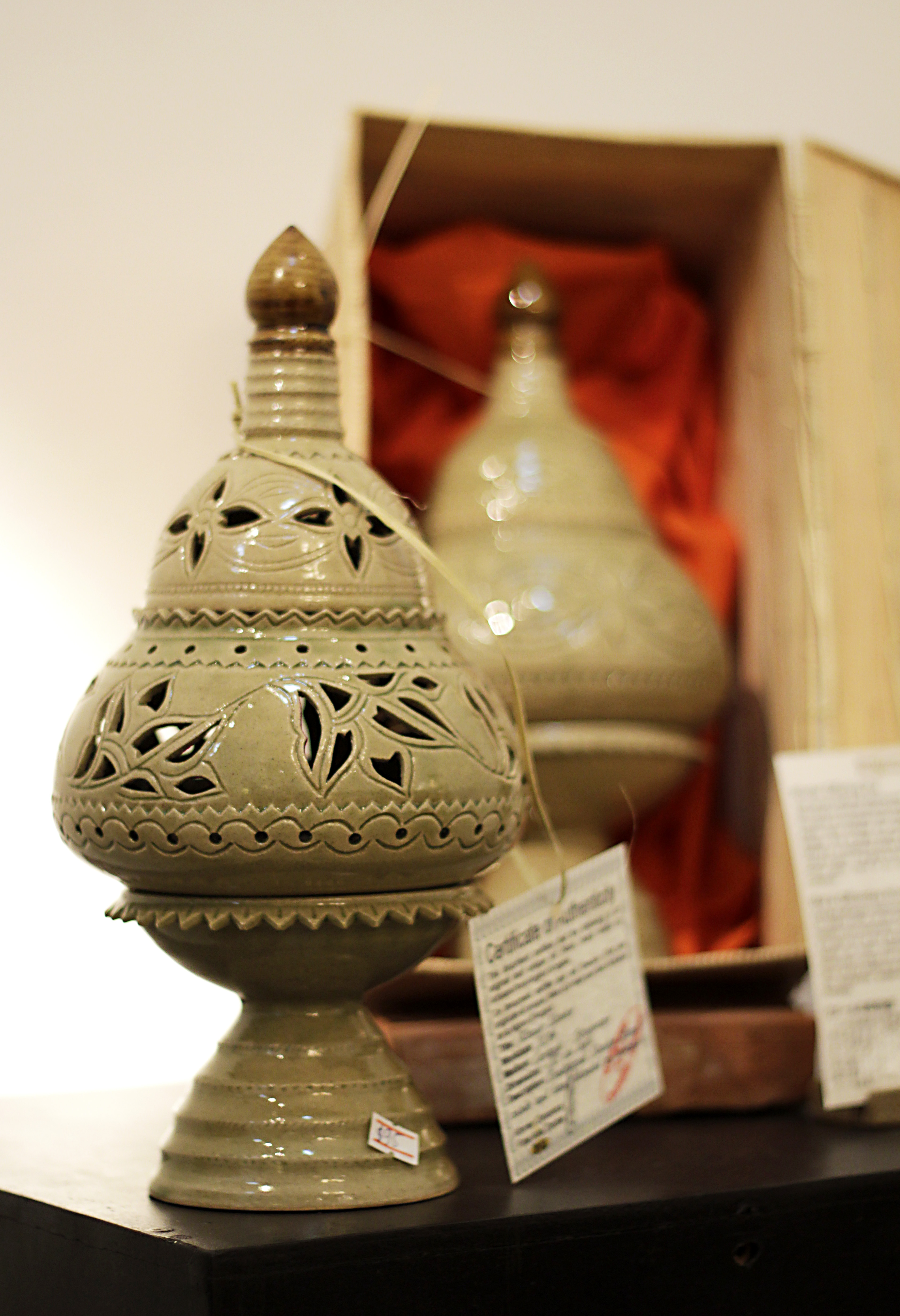 Traditional Khmer Ceramics offering box with Khmer Kbach (traditional Cambodian ornament)